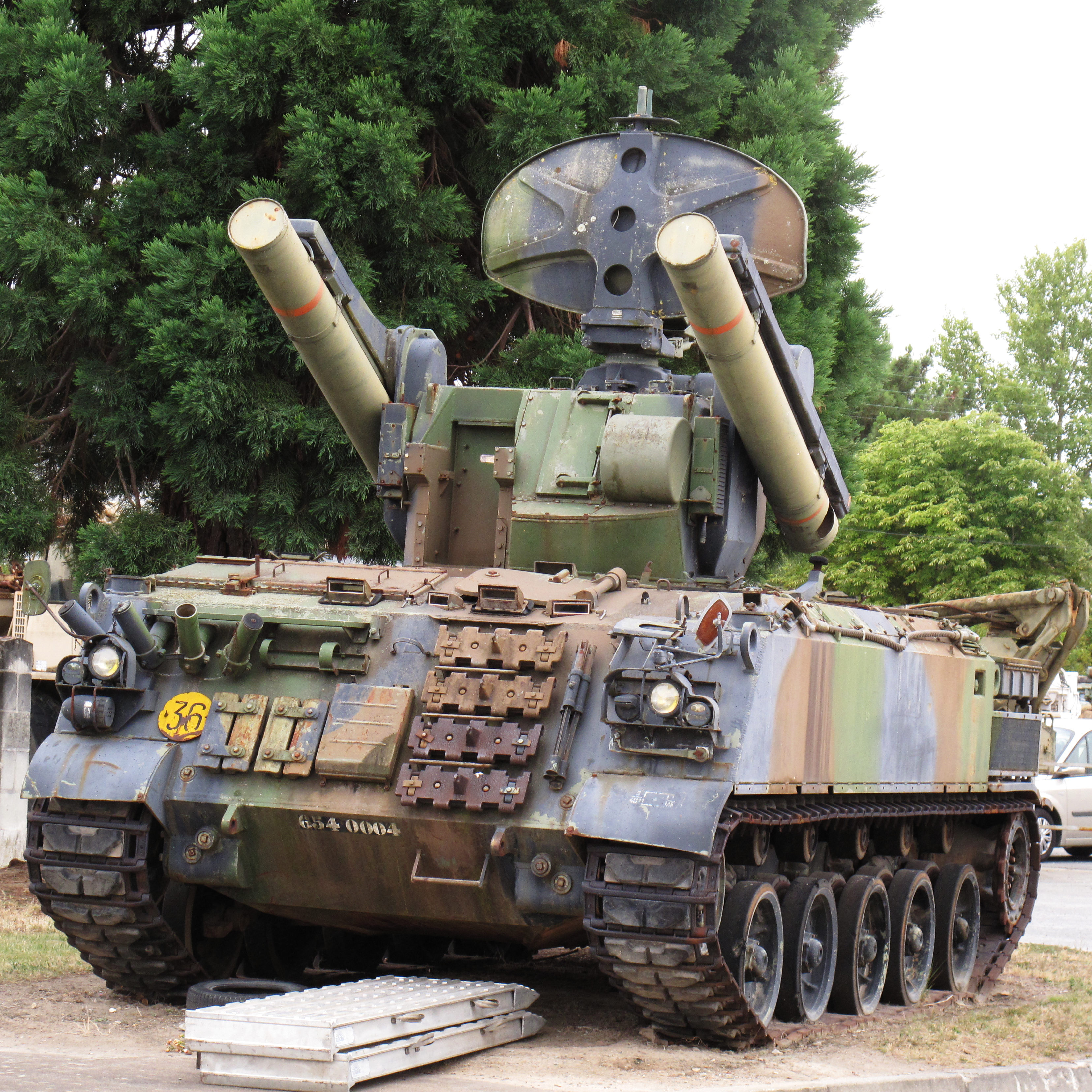 AMX-30 Roland